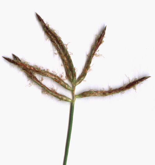 Cyperus rotundus Close-up of inflorescence. Maricopa Co., Arizona, USA